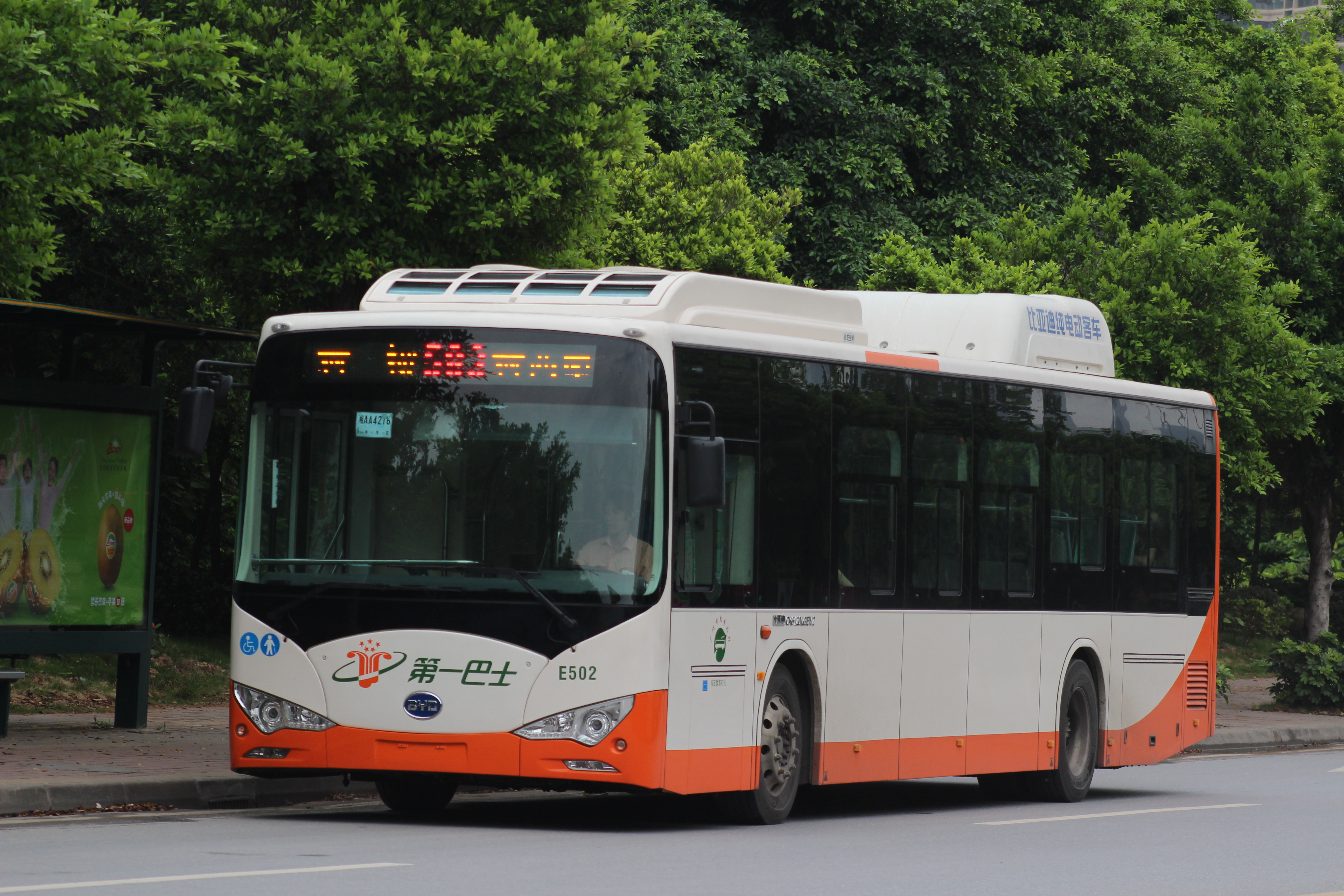 BYD K9A Bus is running Guangzhou Trolley Bus Line 583